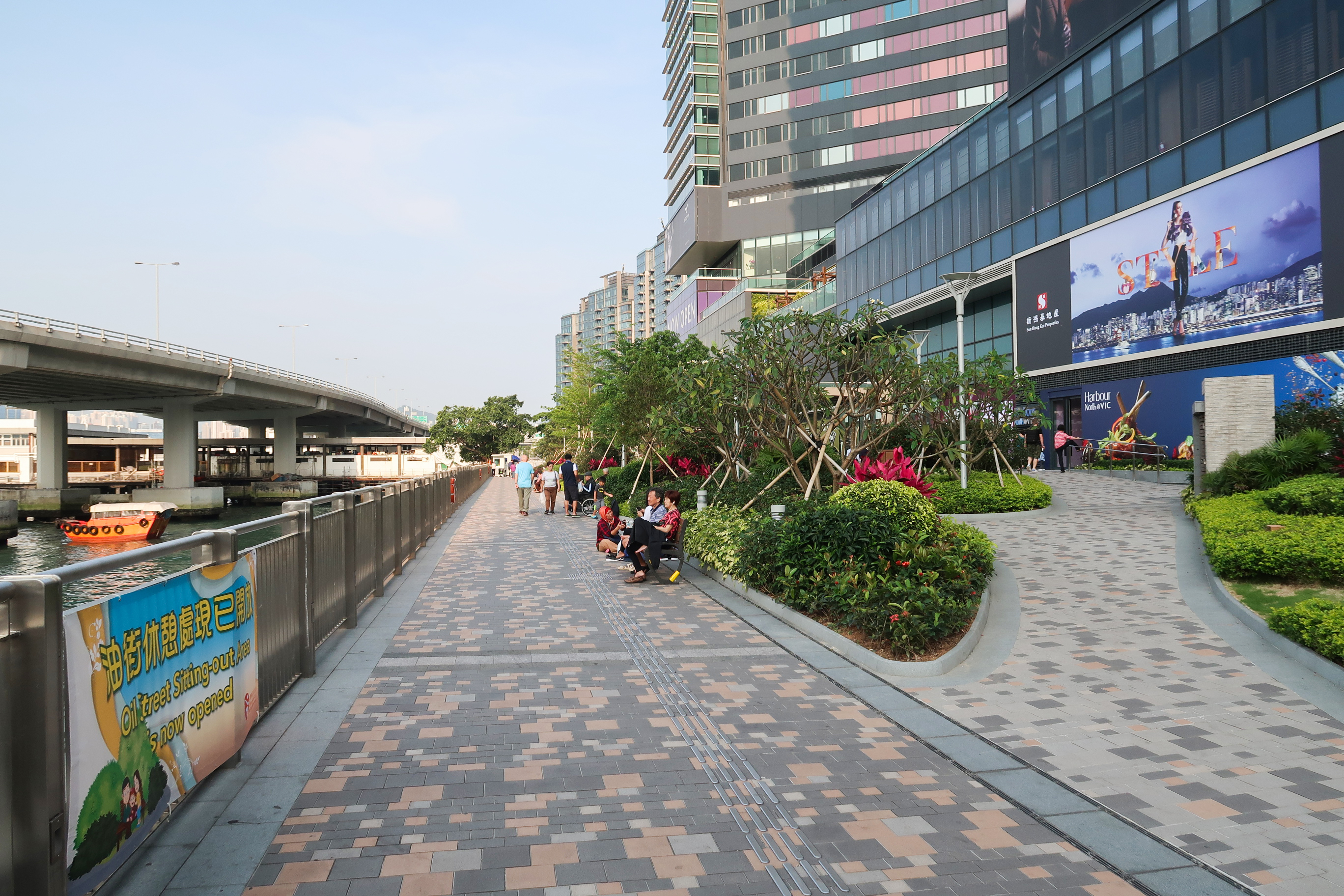 Harbour North POS